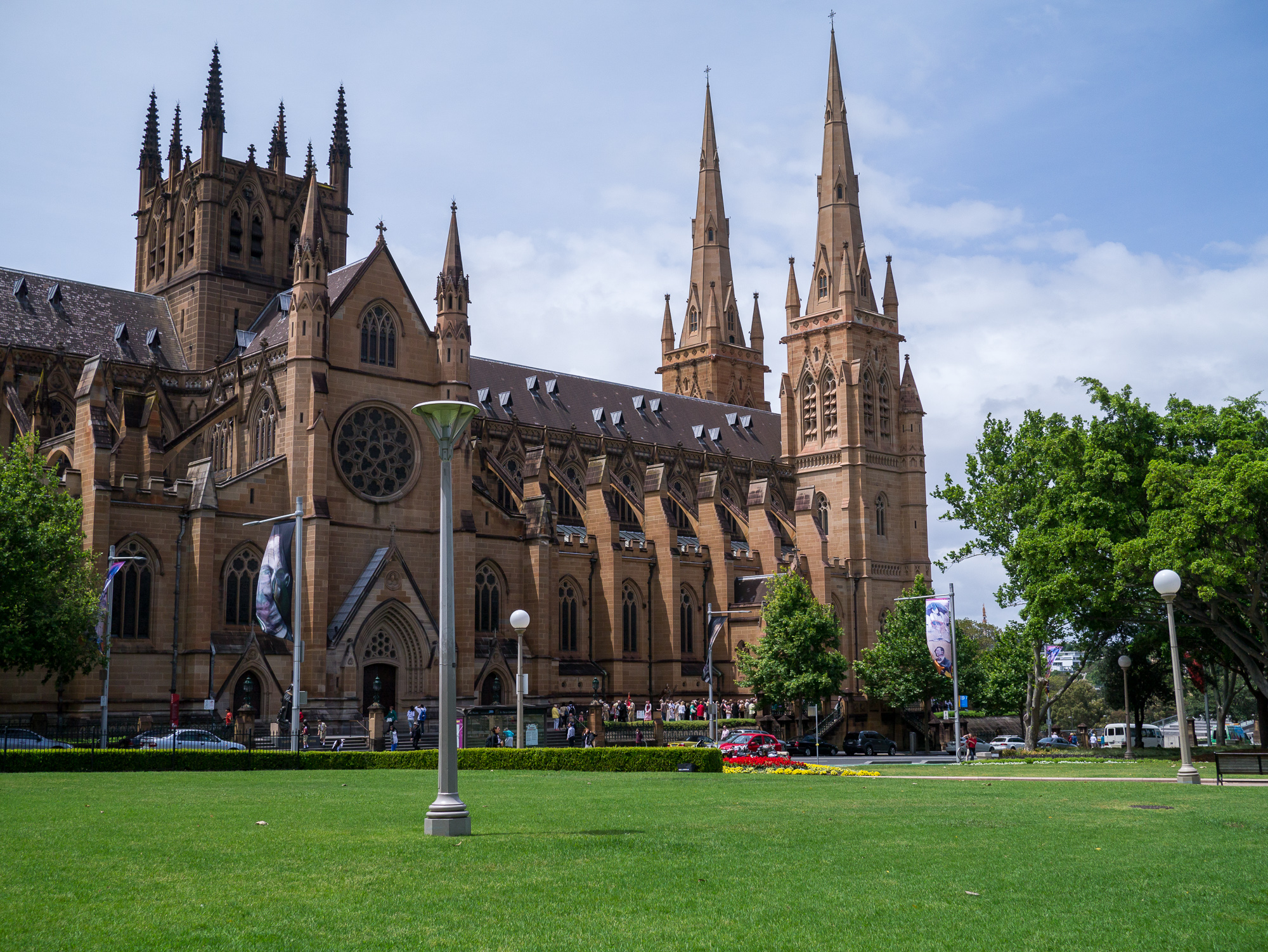 St Mary's Cathedral